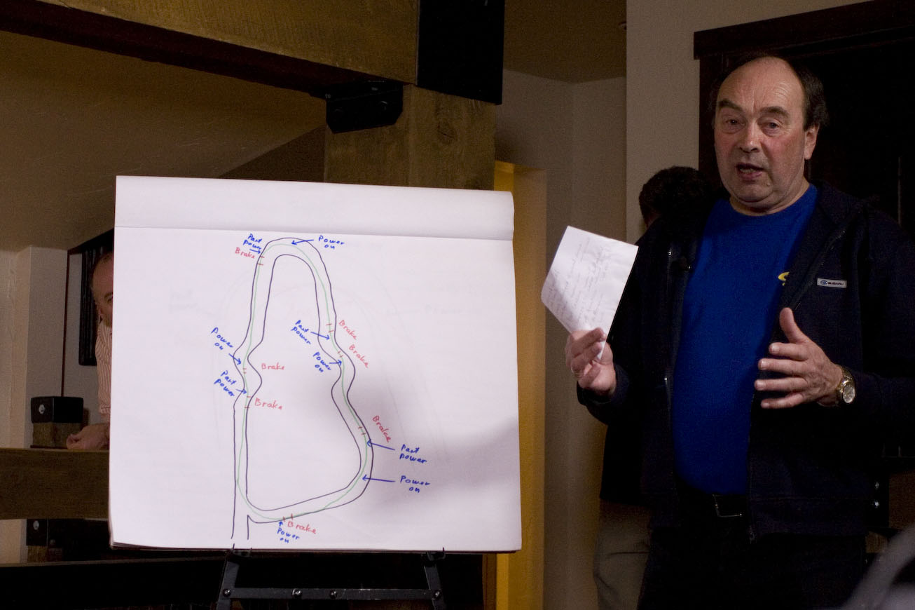 John Haugland instructs students on proper rally driving technique.